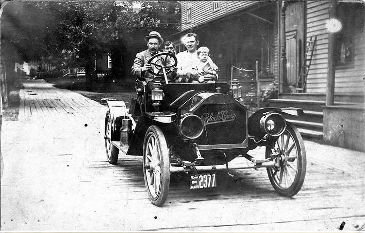 Black-Crow automobile, ca. 1910, on a postcard from Liberty PA. The faint caption on the card reads: "Walter Stroble at wheel in Liberty PA ca. 1910 (note wheel on Right side).